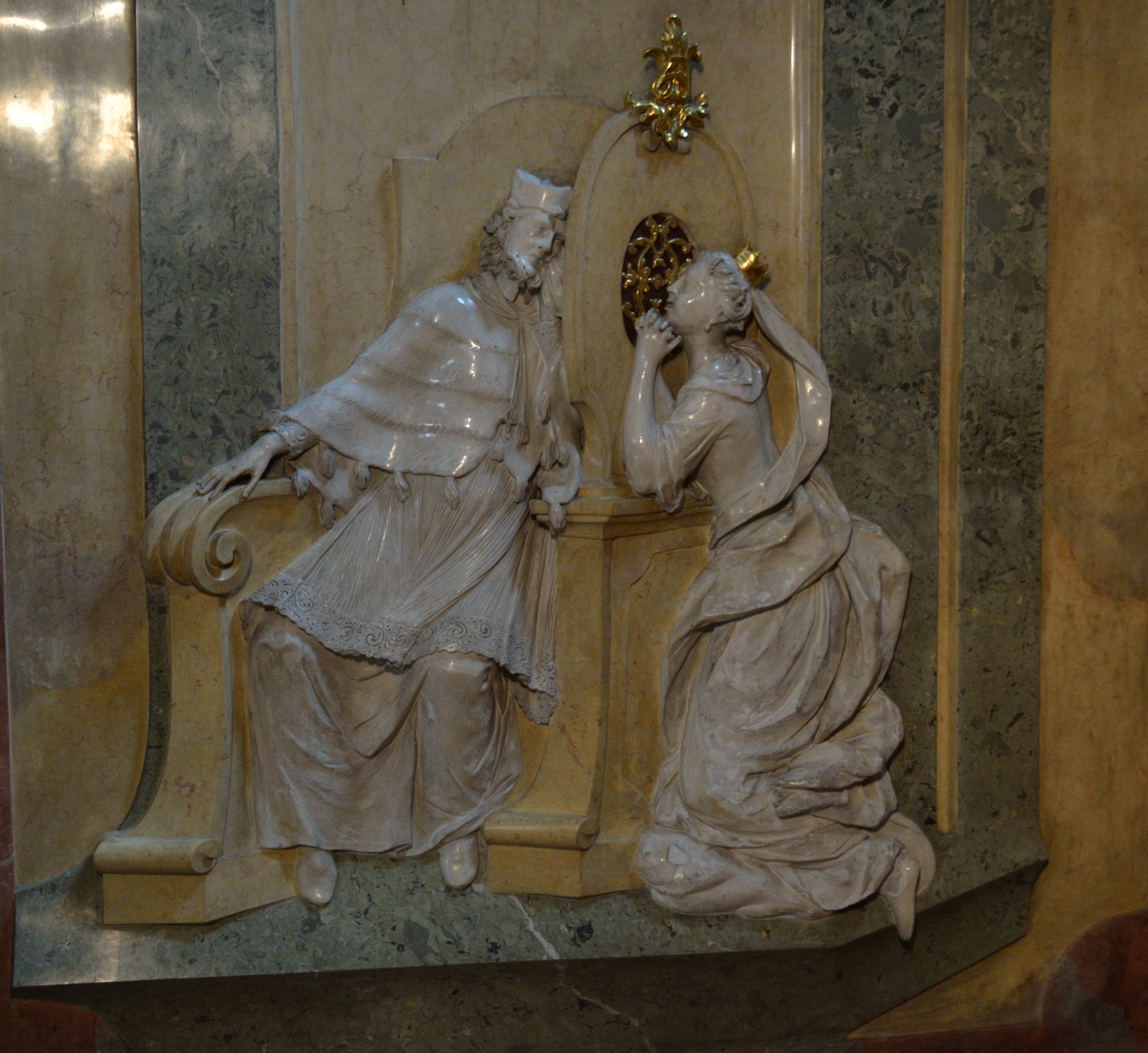 A relief in the Vienna Servite church showing the penance of queen Sophie from Bavaria and John of Nepomuk.